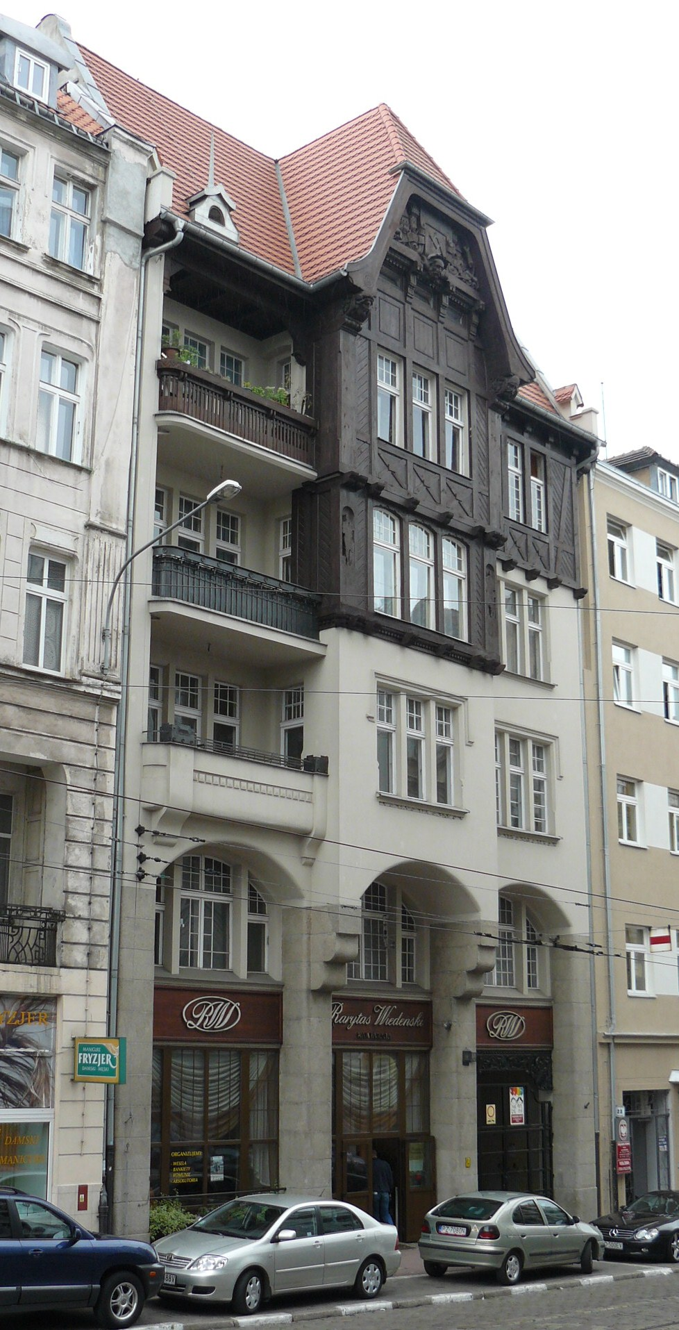 Posener Bauhutte.